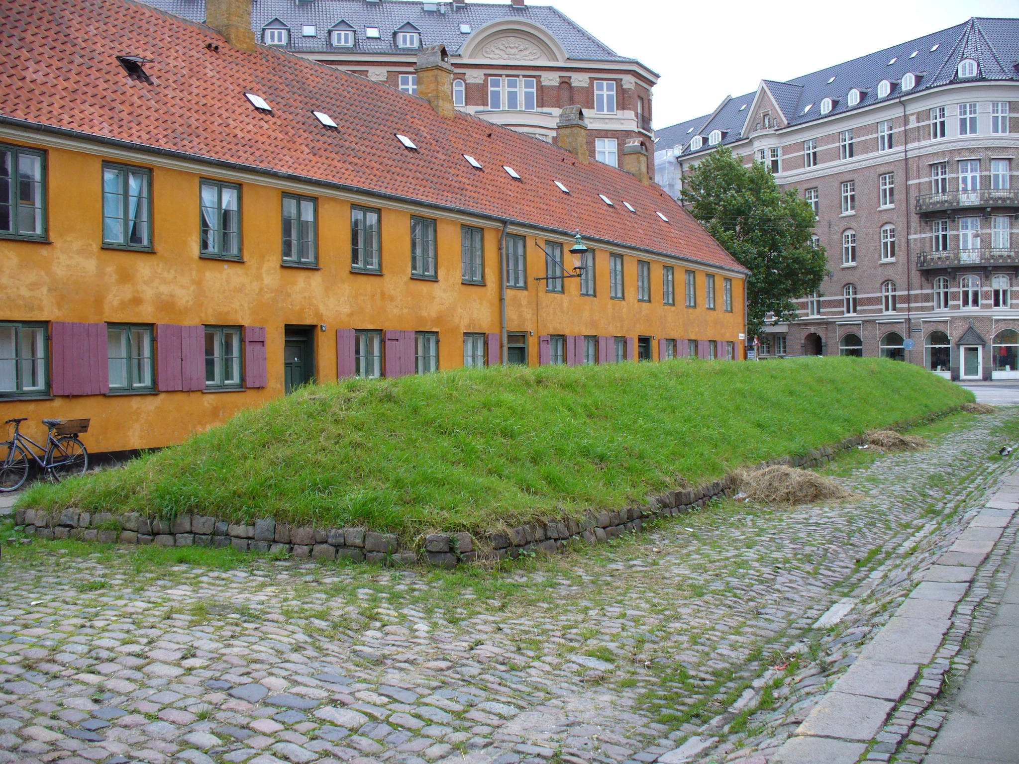 The street Elsdyrsgade in the area Nyboder in Copenhagen.